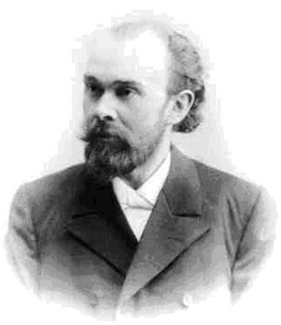 Illarion Ivanov-Schitz (27. 03.1865 г. - 07.12.1937 г.)